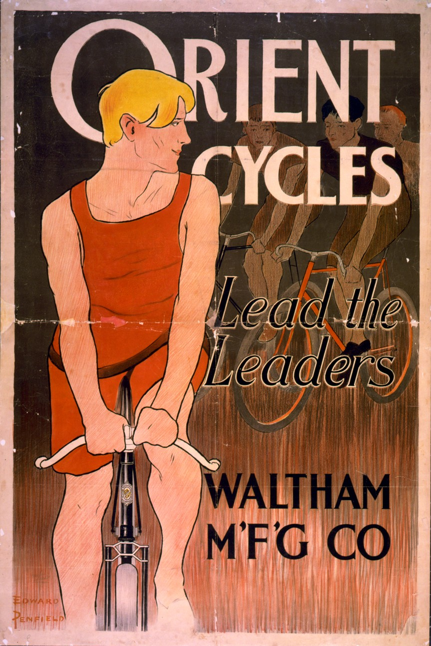 Orient cycles lead the leaders. Waltham M'f'g' Co.